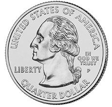 State hood quarter dollar obverse, Philadelphia mint, uncirculated.